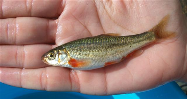 Achondrostoma oligolepis photographed in Rio Mondego (Portugal). Photo by Carla Sousa Santos